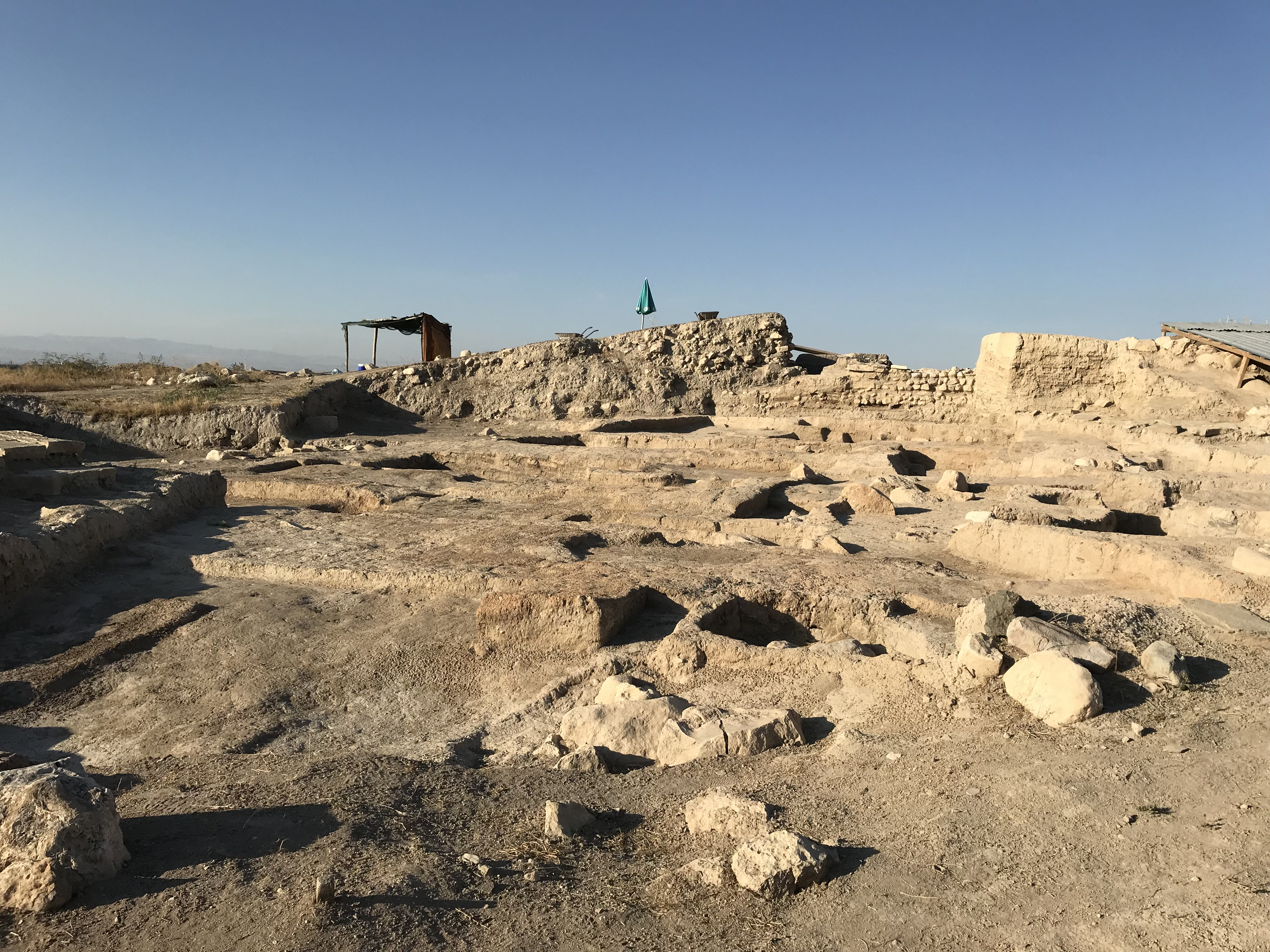 A partial view of Arslantepe Ruins in Malatya, Turkey.